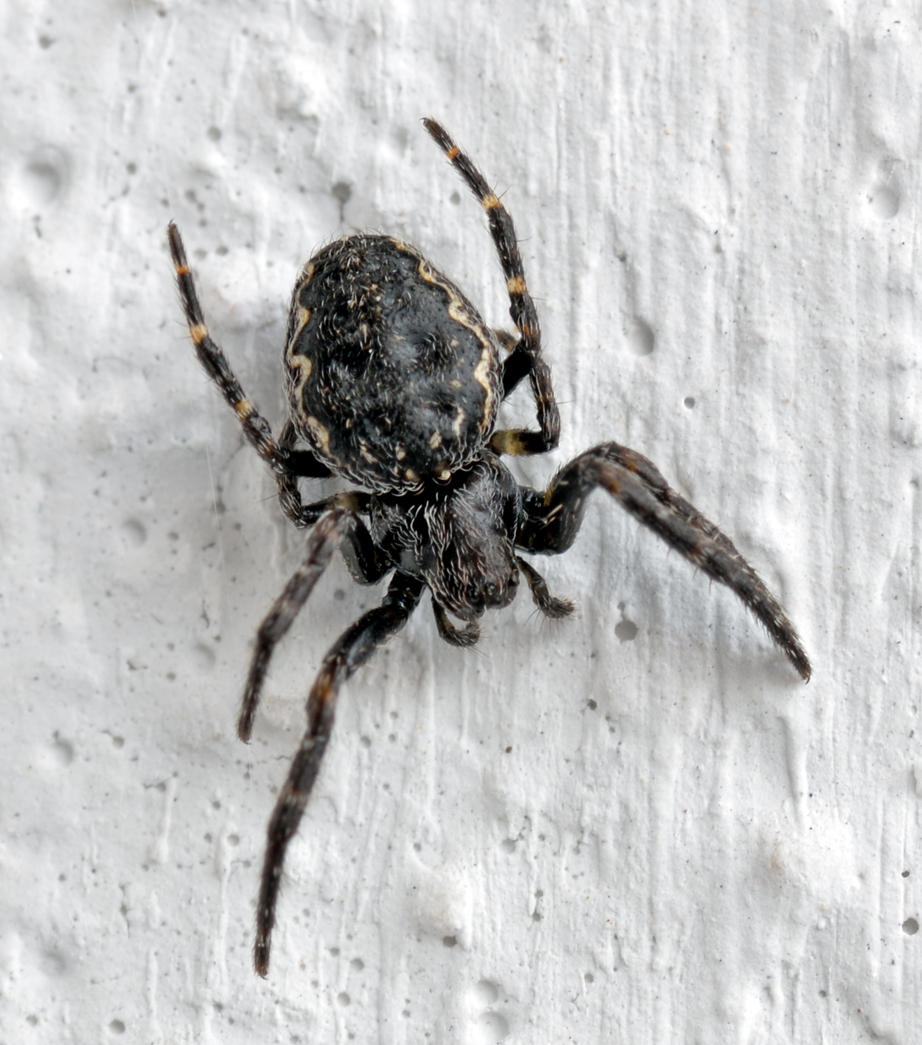 a female Nuctenea umbratica